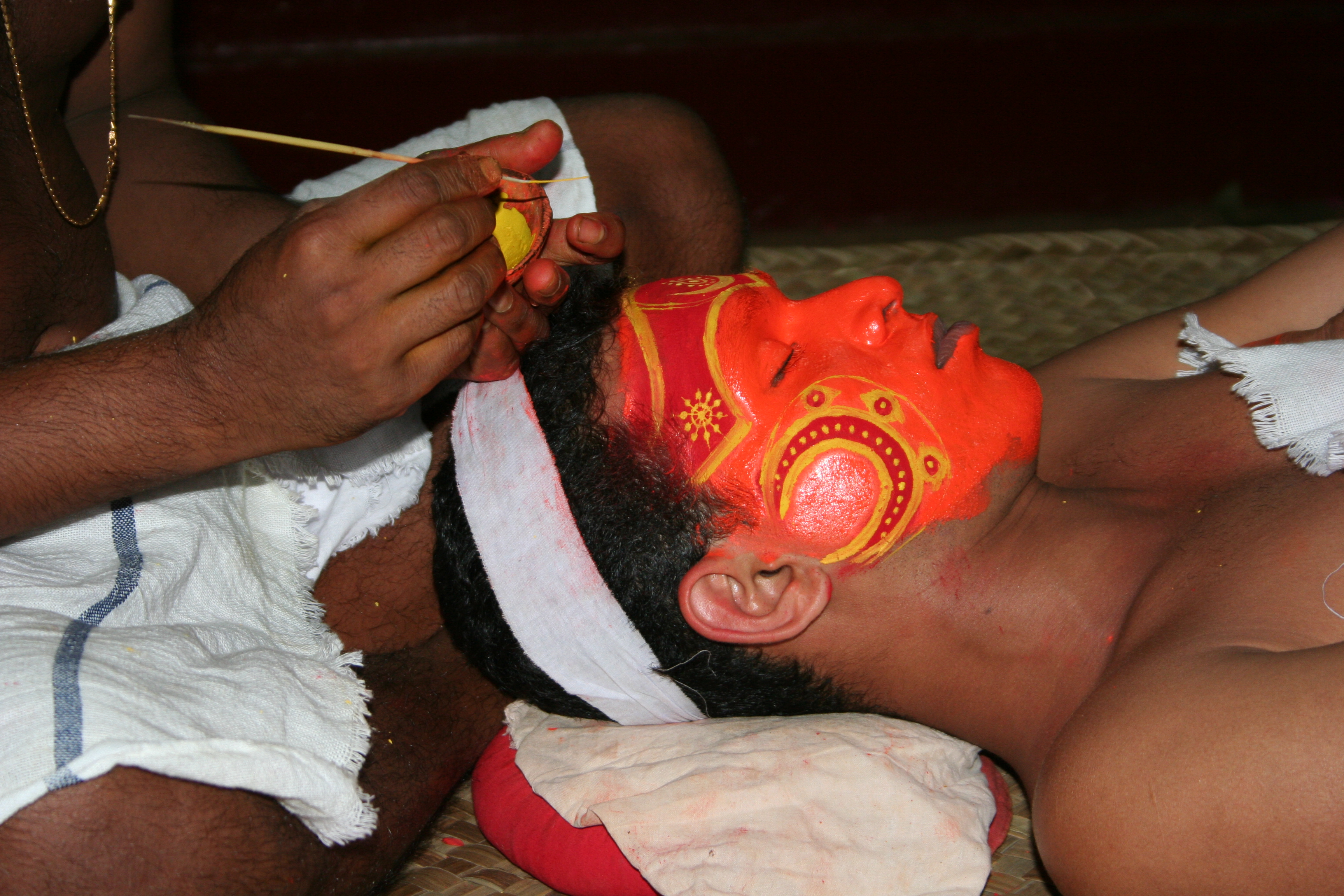 making of theyyam ,ritual art of kerala, india